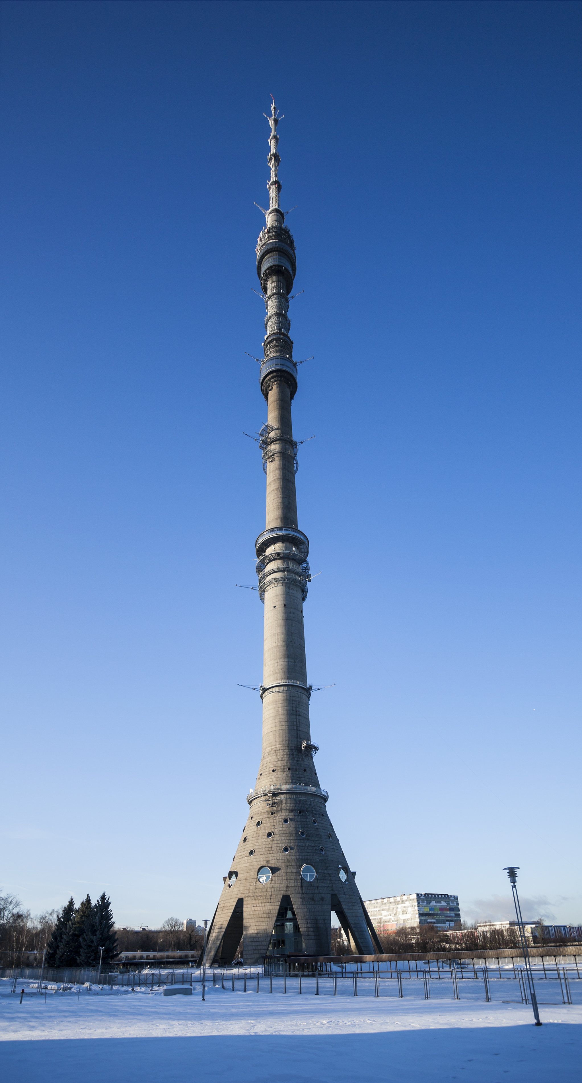 Ostankino Tower Ostankino, North-Eastern District, Moscow